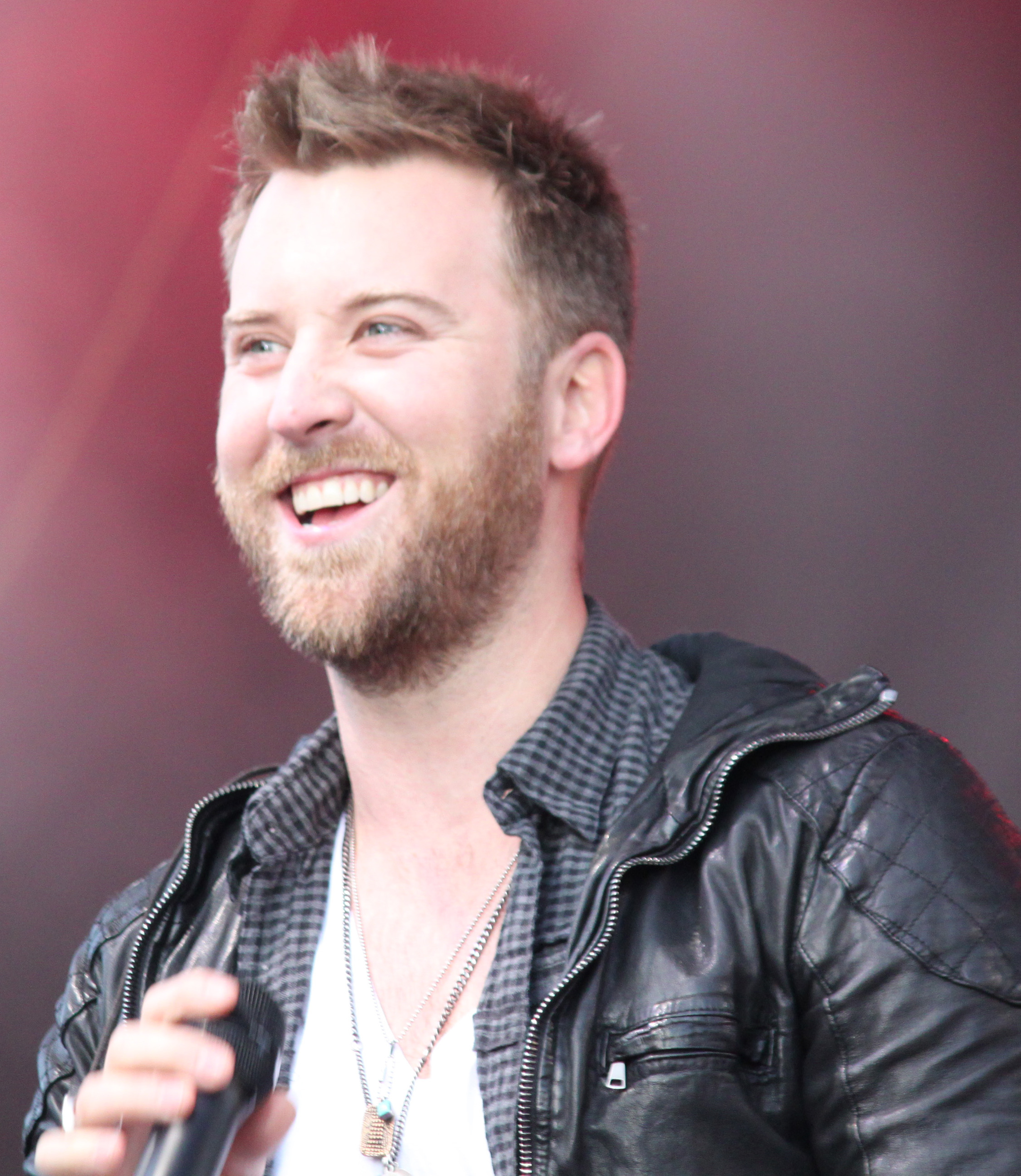 Lady Antebellum play in Charlotte